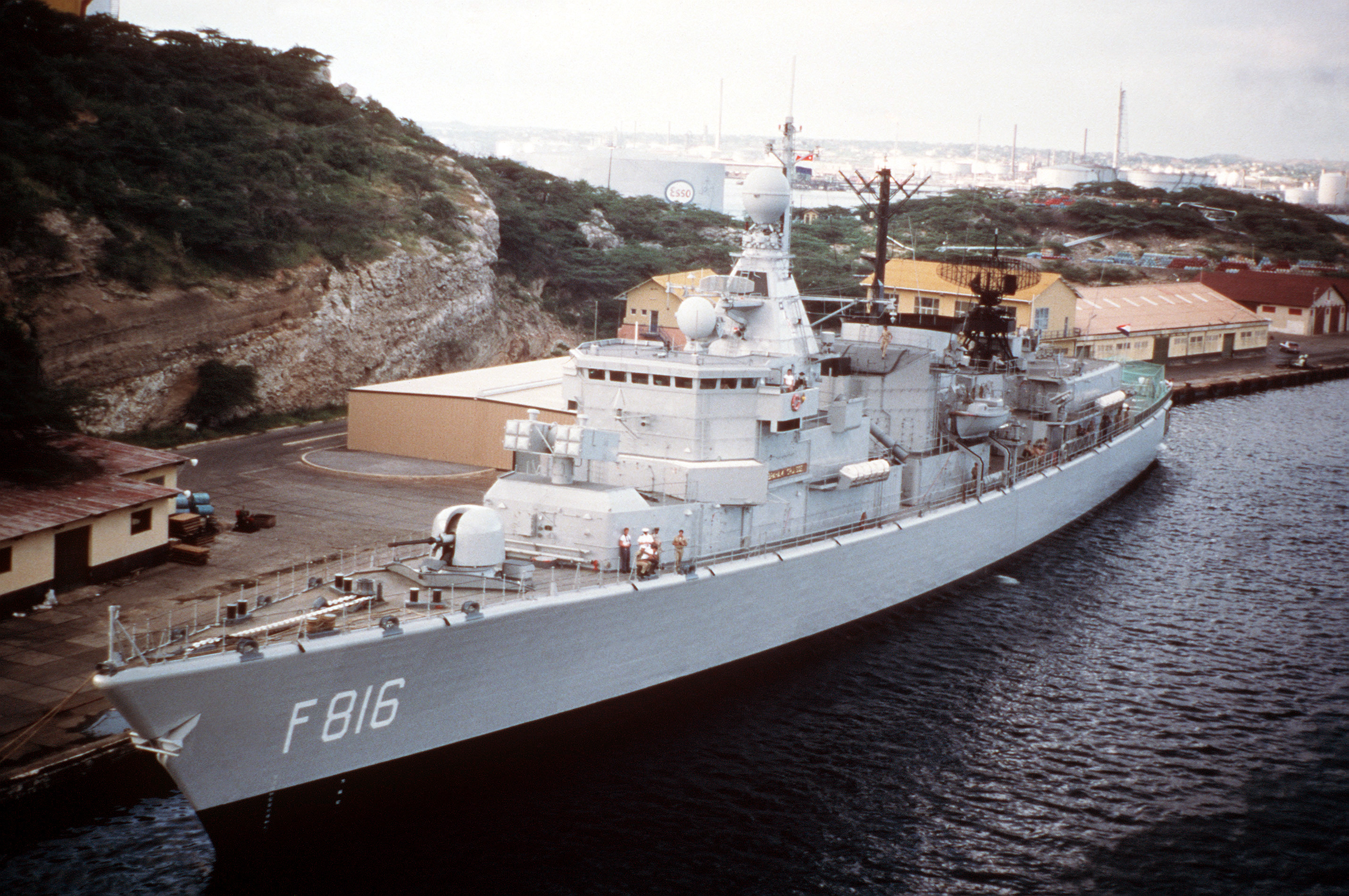 A port bow view of the Netherlands navy Kortenaer class frigate ABRAHAM CRIJNSSEN (F 816) tied at the refueling pier.